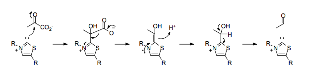 Mechanism of vitamin B1-catalyzed pyruvate decarboxylation